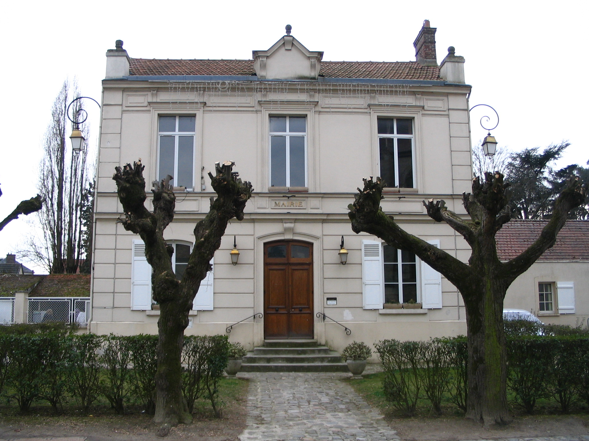 Chennevières-lès-Louvres's town hall, in Val d'Oise, France.